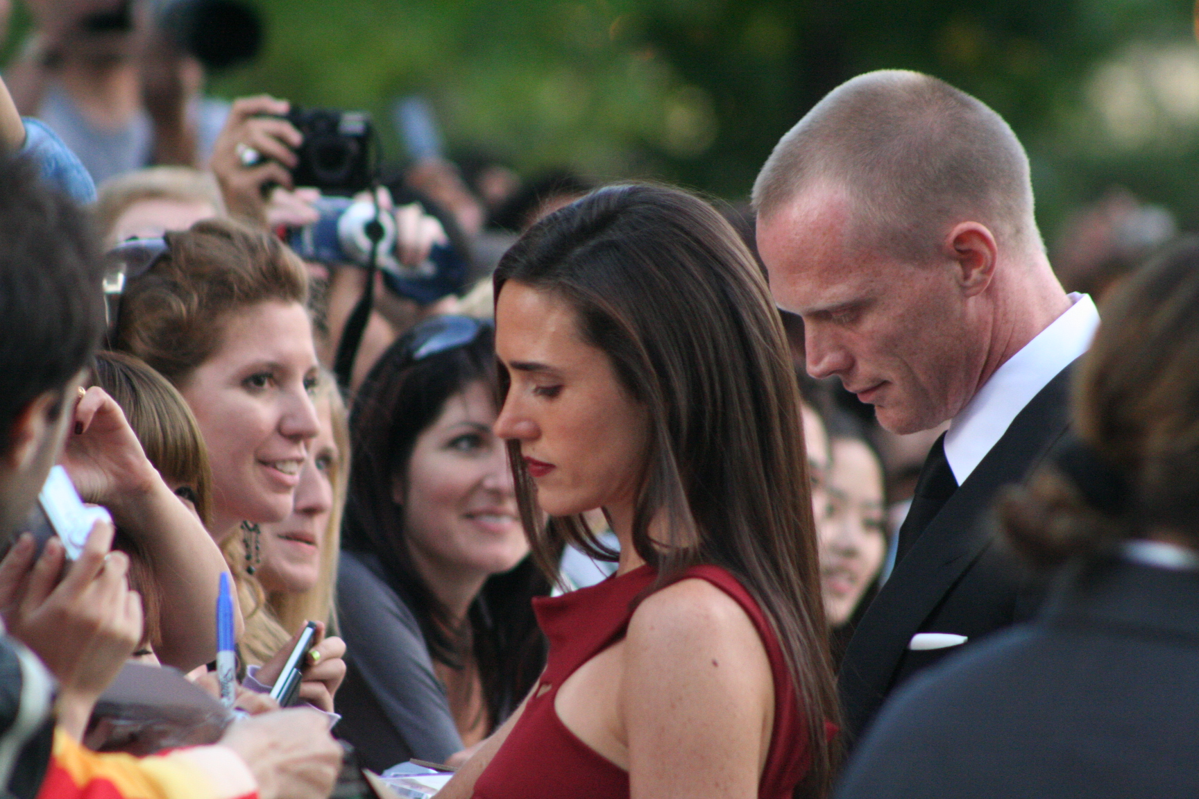 Jennifer Connelly and Paul Bettany at the 2009 Toronto International Film Festival